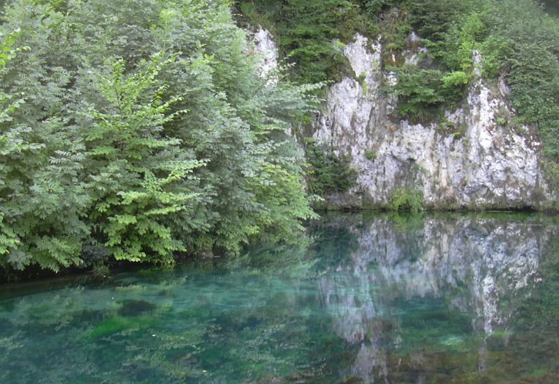 Karst spring of river Brenz, Swabian Alb, Germany